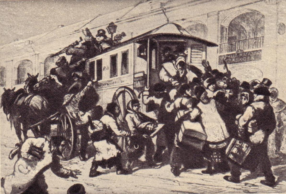 First Petersburg omnibus 1873